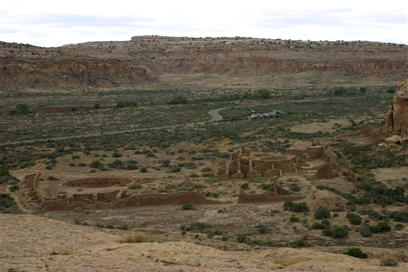 Chetro Ketl from the mesa top